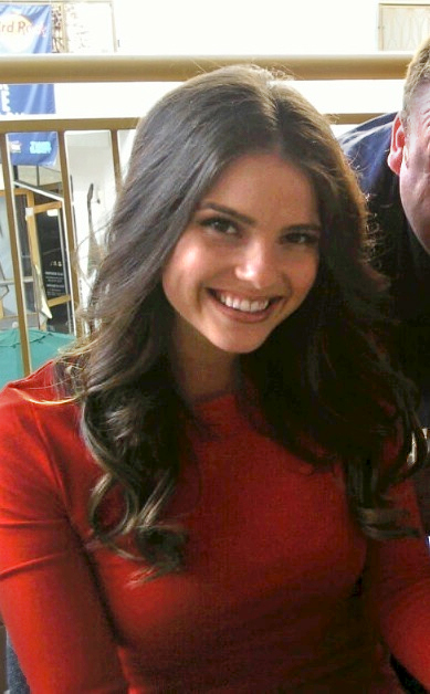 Photograph of Shelley Hennig.